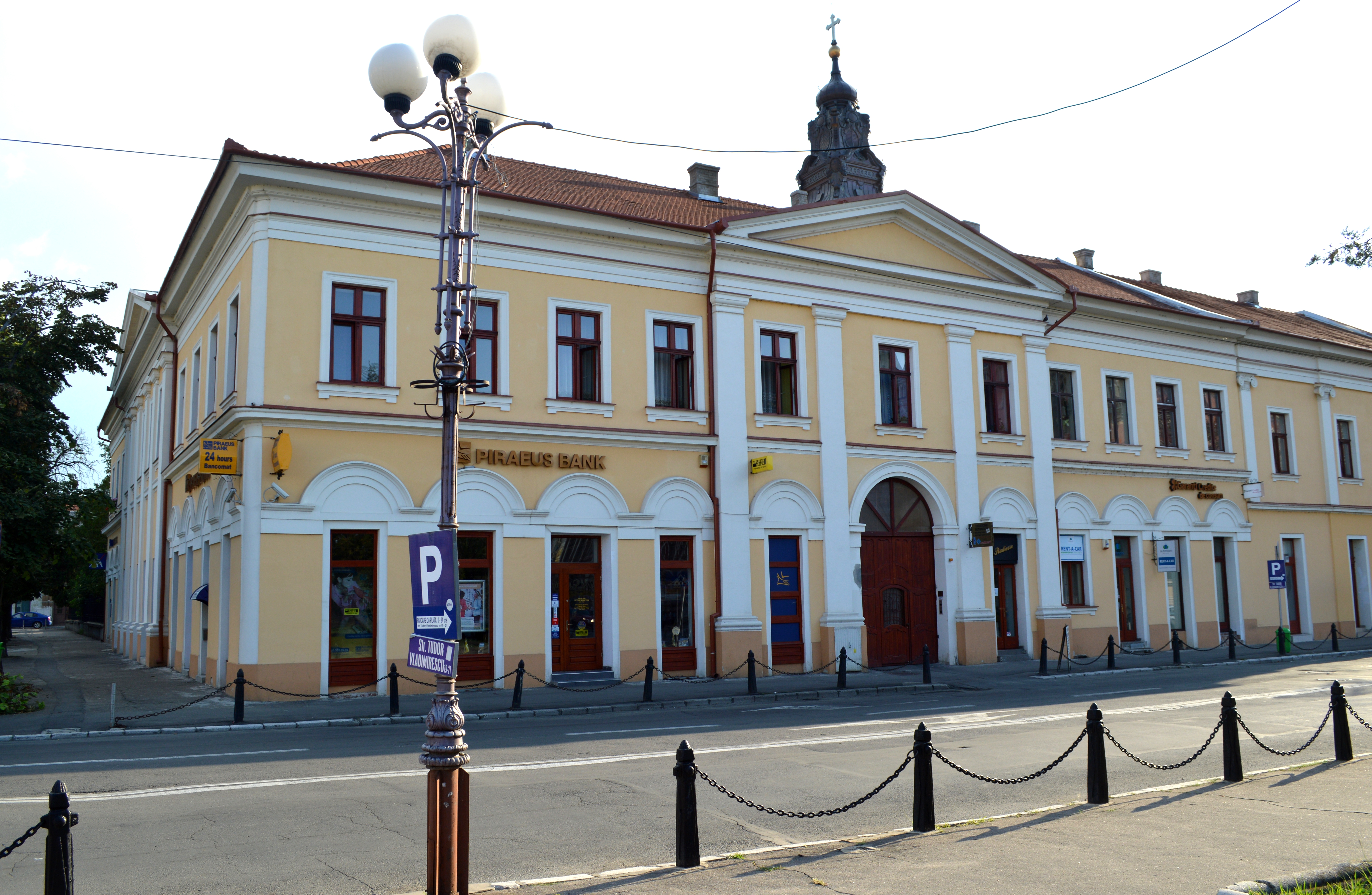 Kovats House - OradeaRomână: Casa Kovats - Oradea